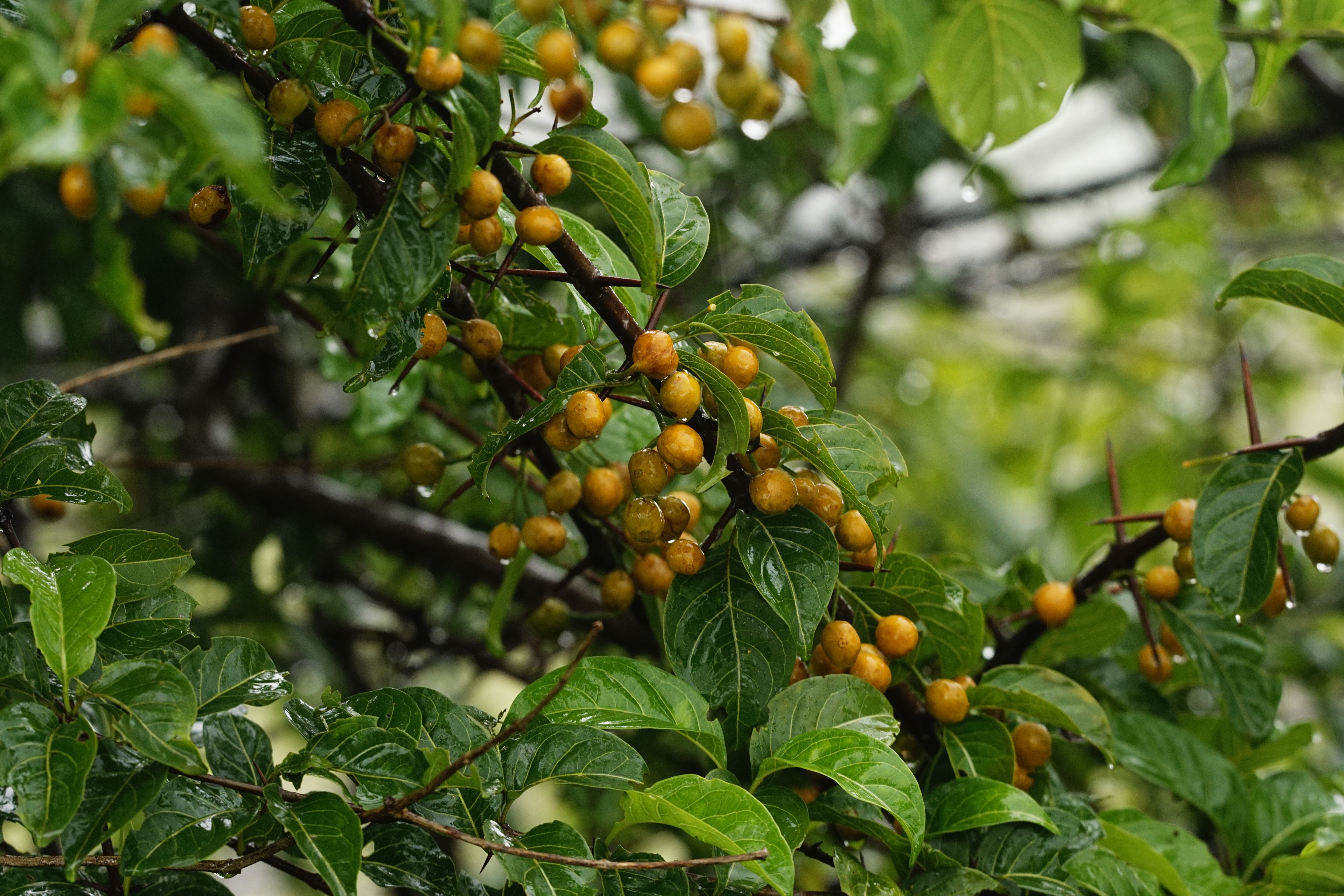 FLORA